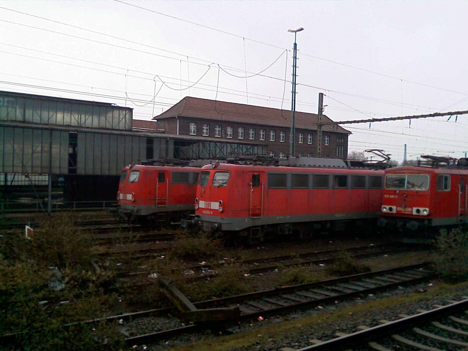 Wanne-Eickel main station, platform 8. Viewing direction: south-west. You can see some locomotives of the "Deutsche Bahn AG".